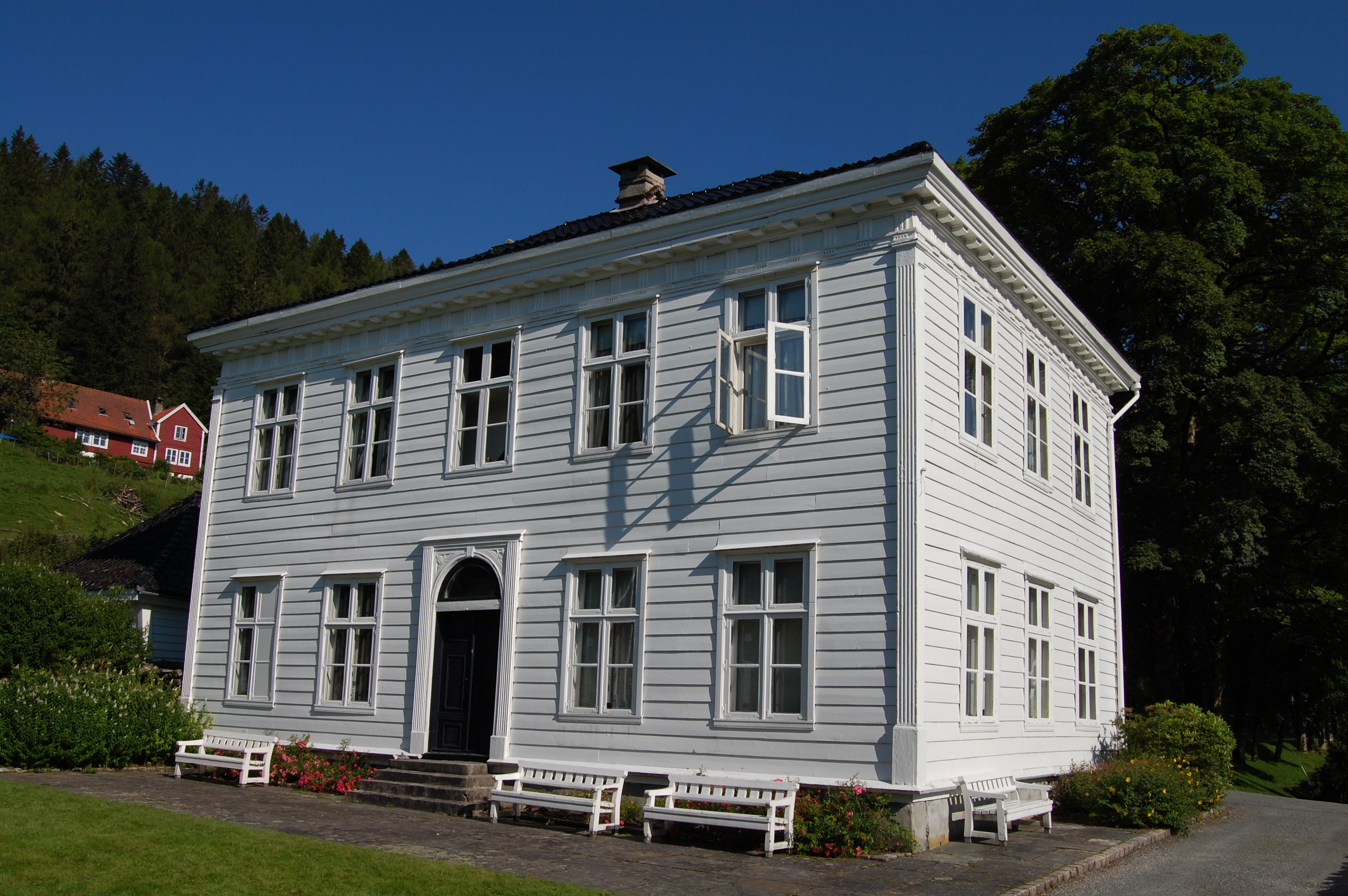 Fjøsanger hovedgård